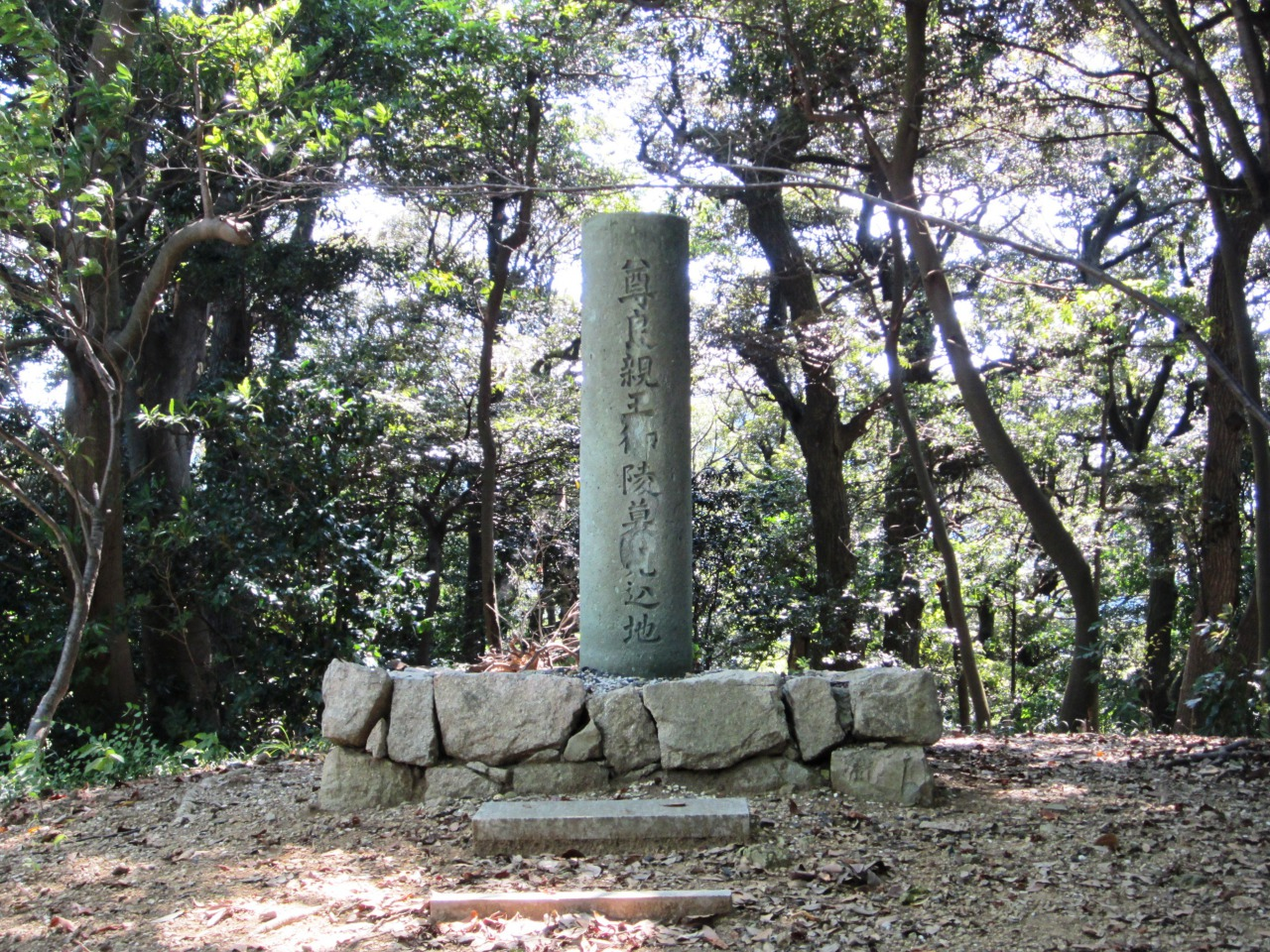 Deathplace of Prince Takayoshi at the Site of Kanegasaki Castle in Tsuruga, Fukui.